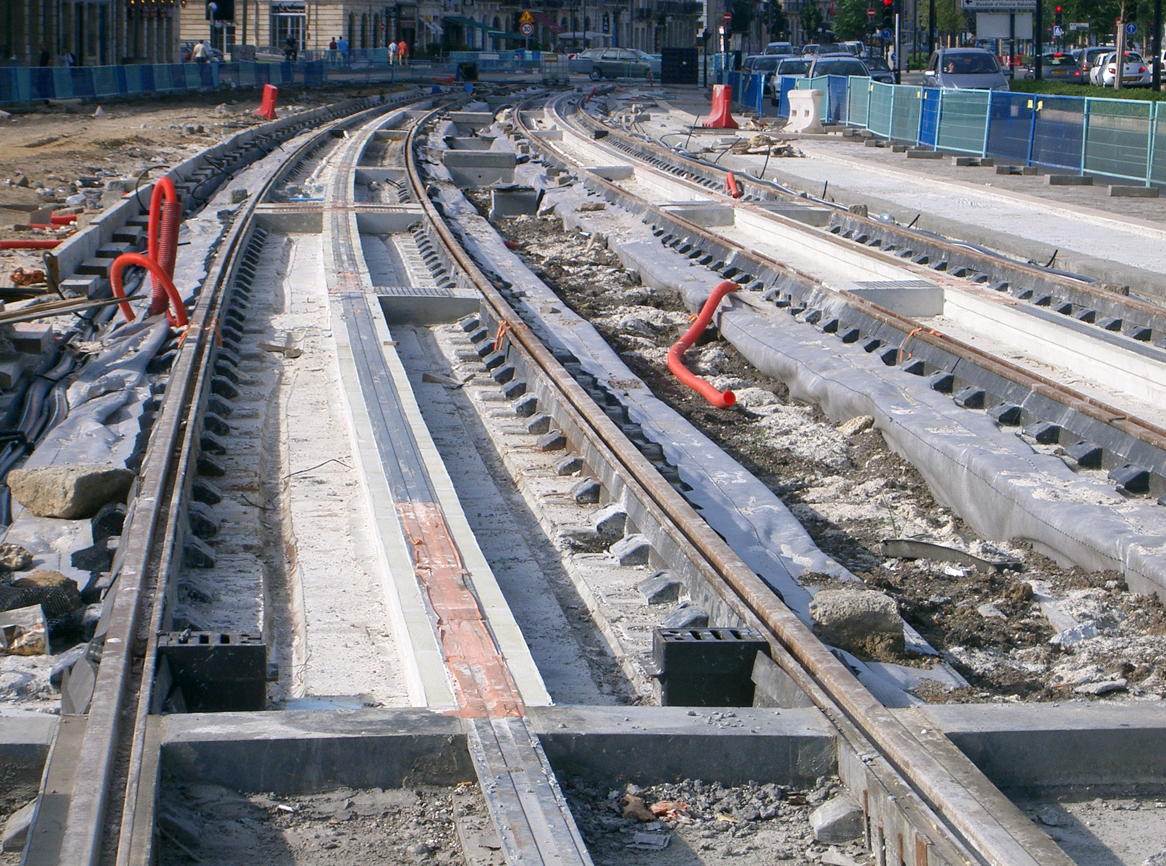 APS tram track being installed where eventually lawn track will be used. Photographed by SPSmiler, summer 2006